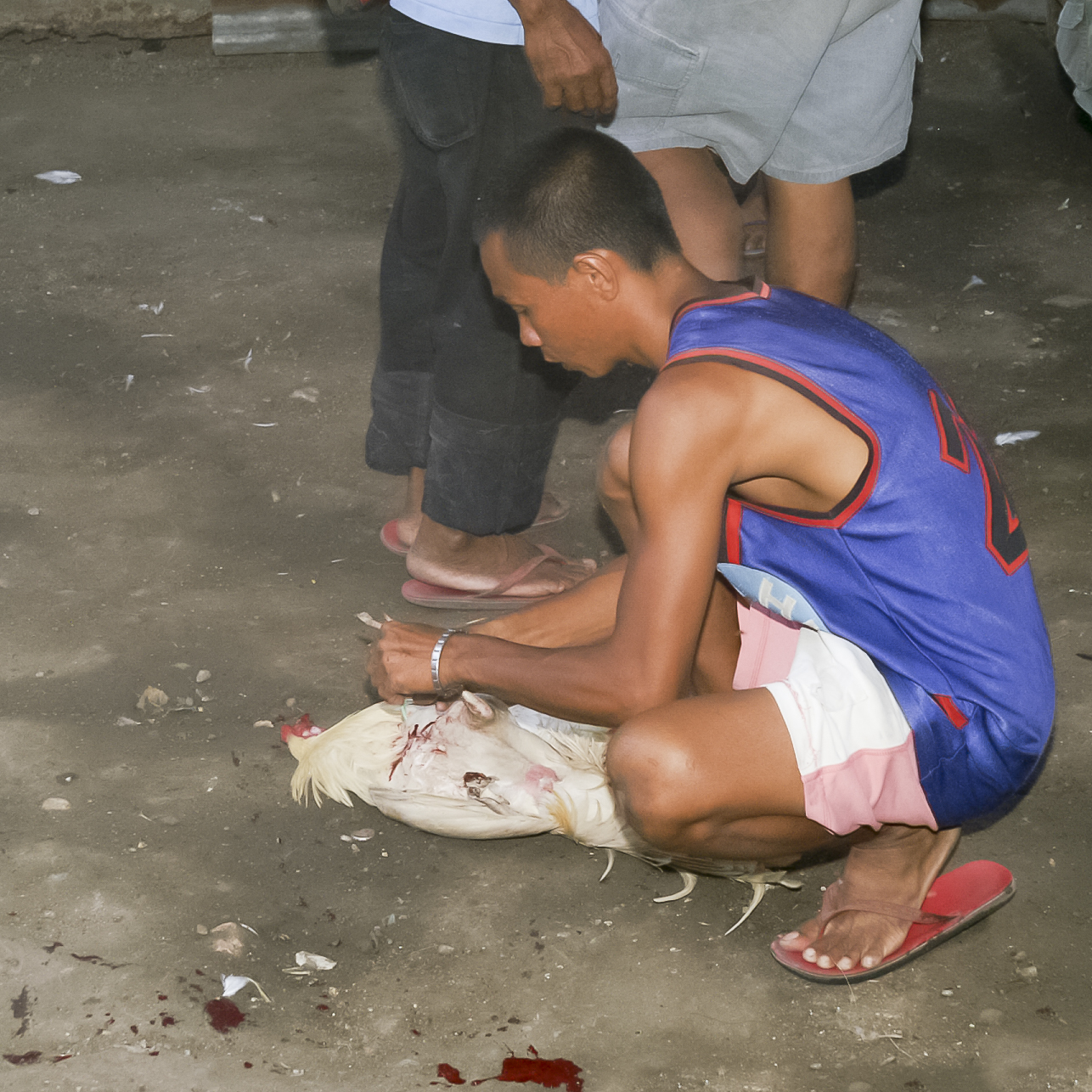 Bulacao, Cebu City, Philippines: This participant is collecting his dead roaster from the arena. However, the roaster will still serve a better purpose and will spice up the dinner of the owners family.